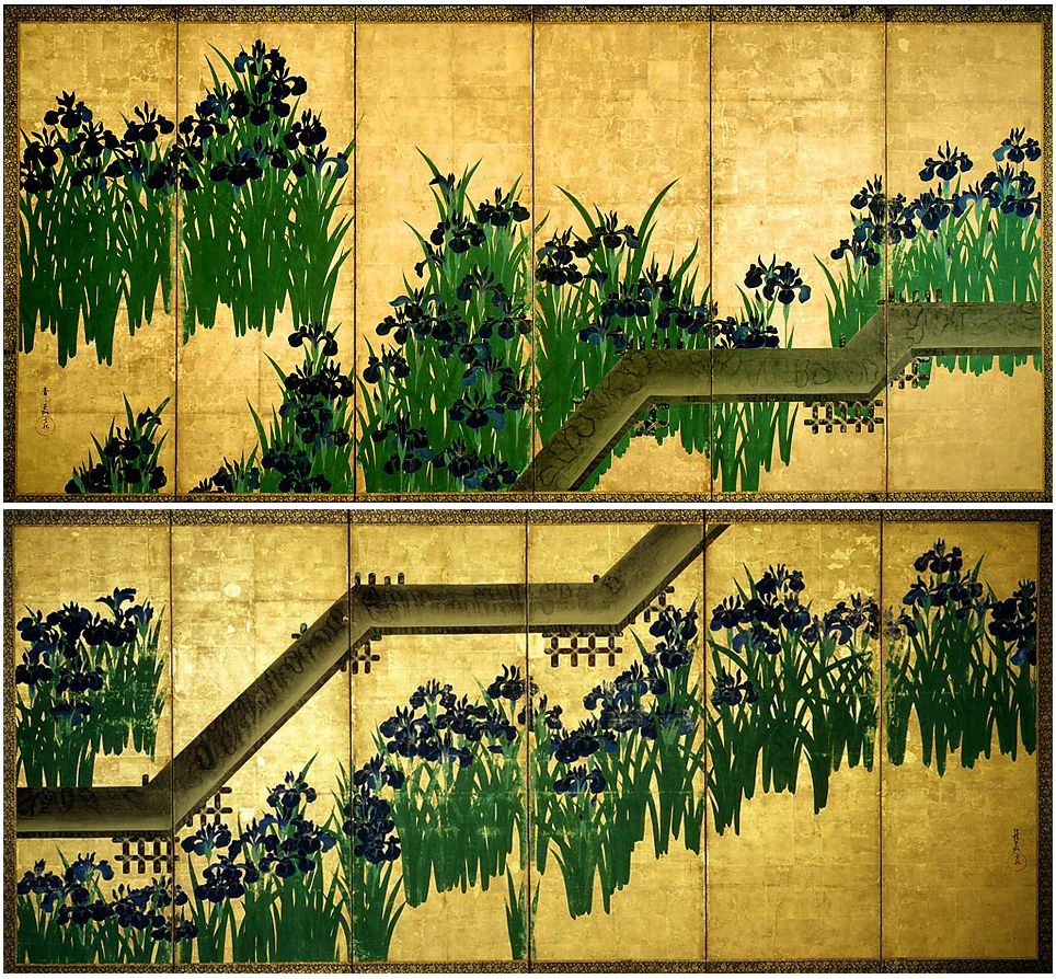 Yatsuhashi-zu Byōbu by Kōrin Ogata